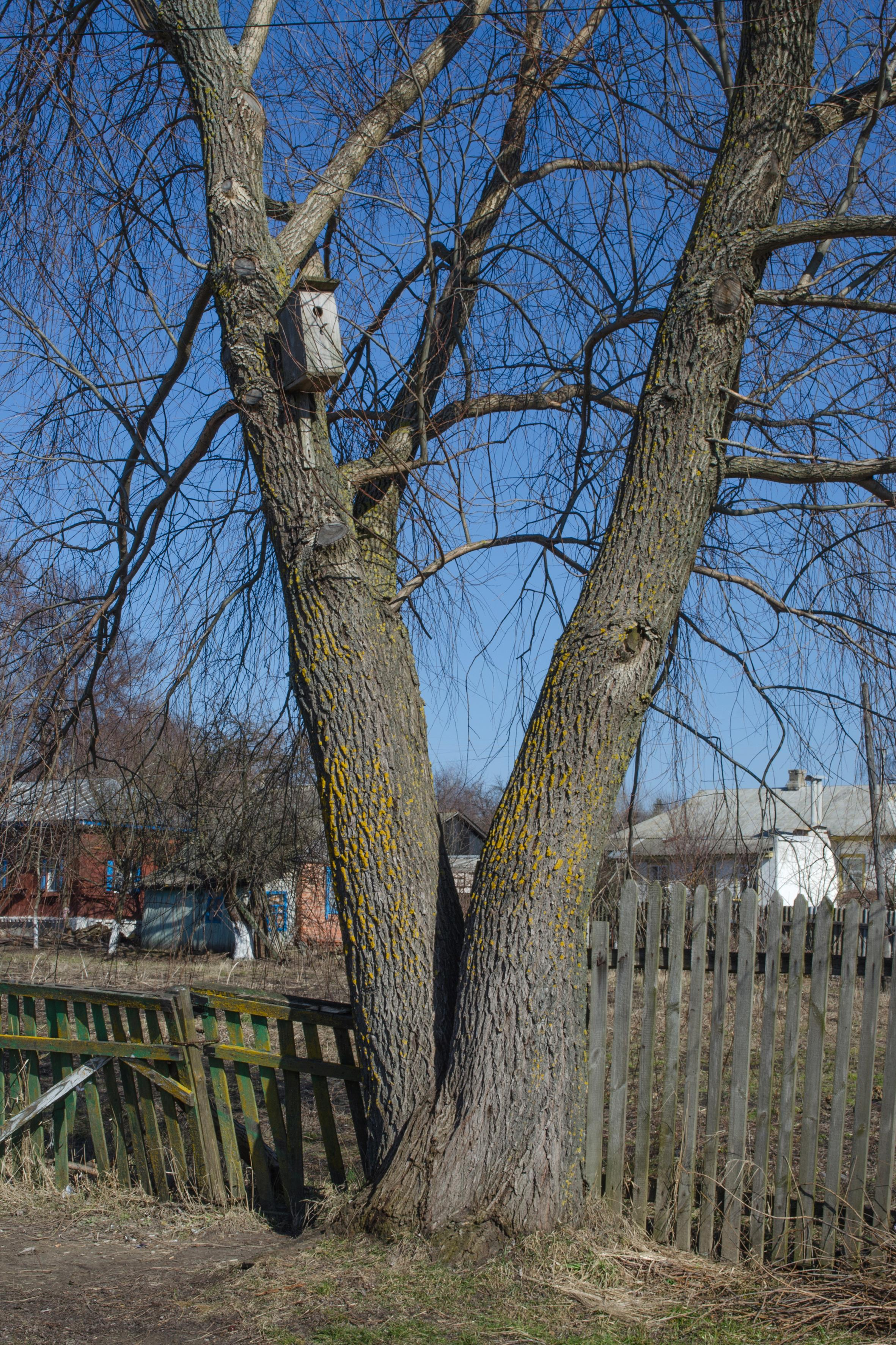 v.Khmil'nytsia, Chernihiv Raion, Chernihiv Oblast, Ukraine